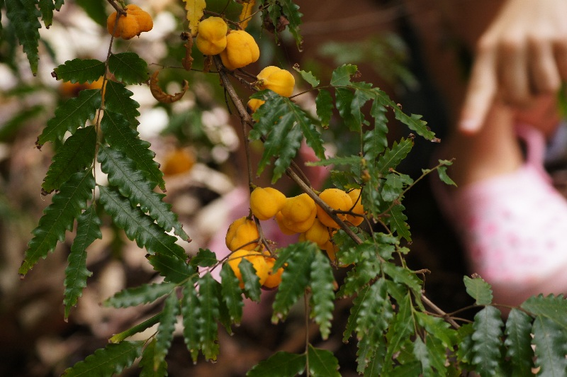 Sarcotoechia serrata - Fern Leaved Tamarind Family :Sapindaceae Australian rainforest plant